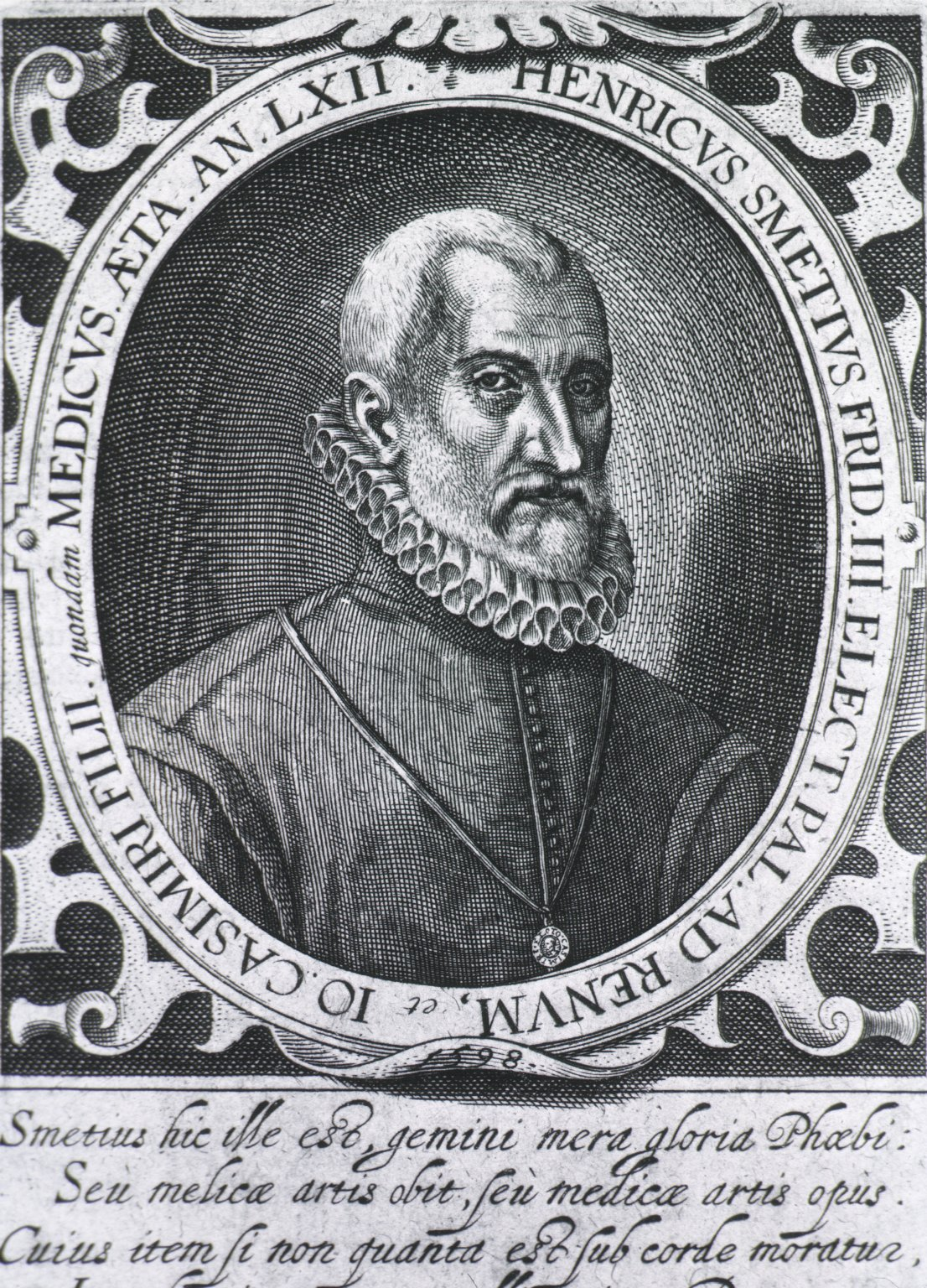 Early Modern Image of Henrich Smet (Henricus Smitius Frid Jacobus Granthome. fe.)